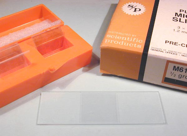 Microscope cover slips and slides in their product boxes, and a single microscope slide with cover slip in proper placement